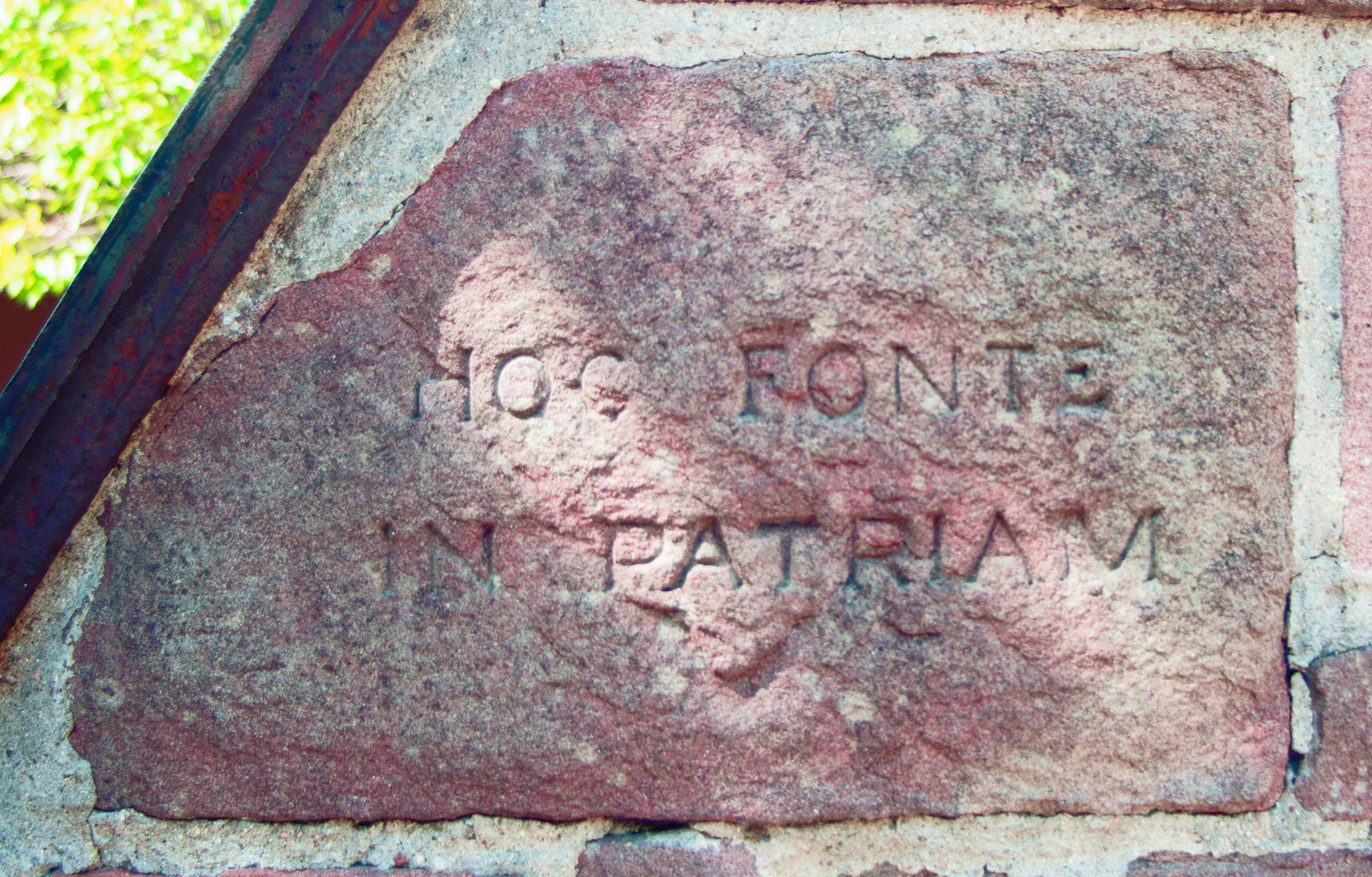 Inscription on pediment